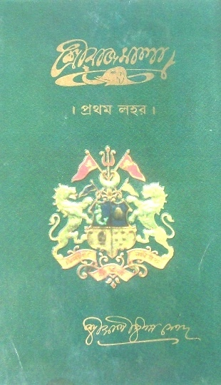 Cover of Rajmala Vol 1